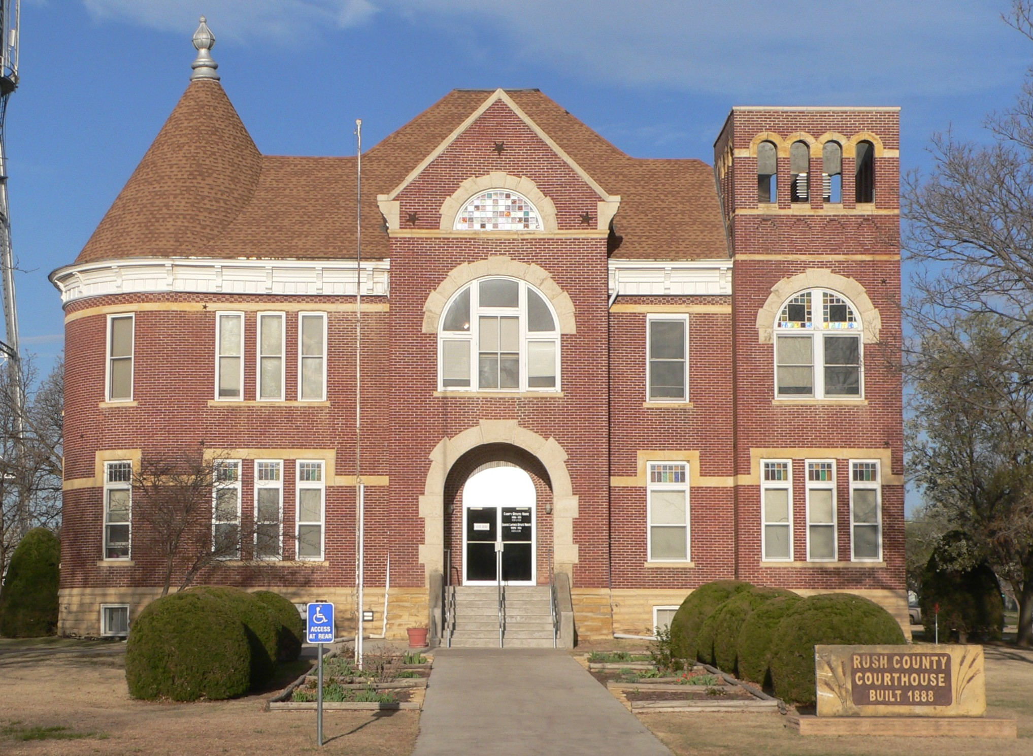 Rush County courthouse in La Crosse, Kansas; seen from the east.